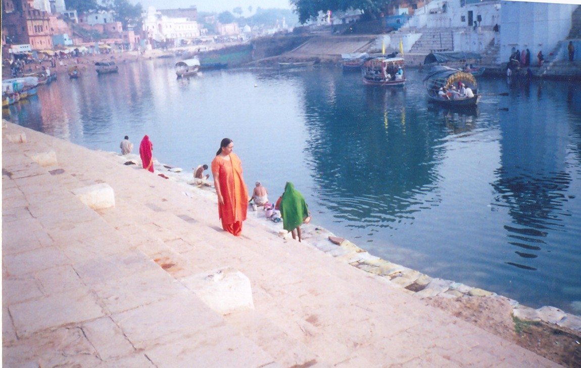 Self created image of Ramghat at Chitrakoot